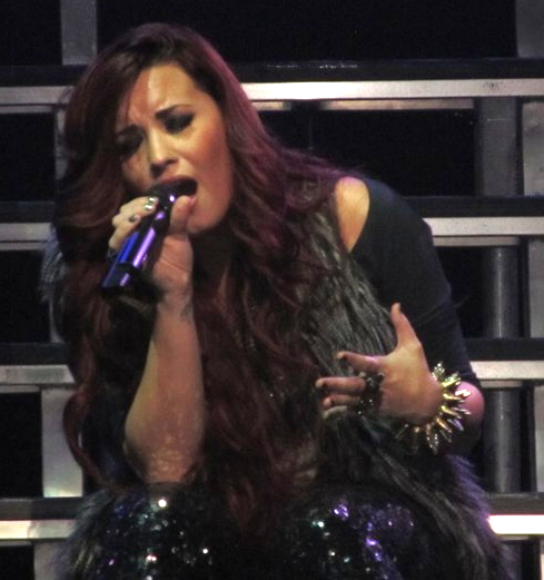 Demi Lovato performing "Fix a Heart" in December 2011.